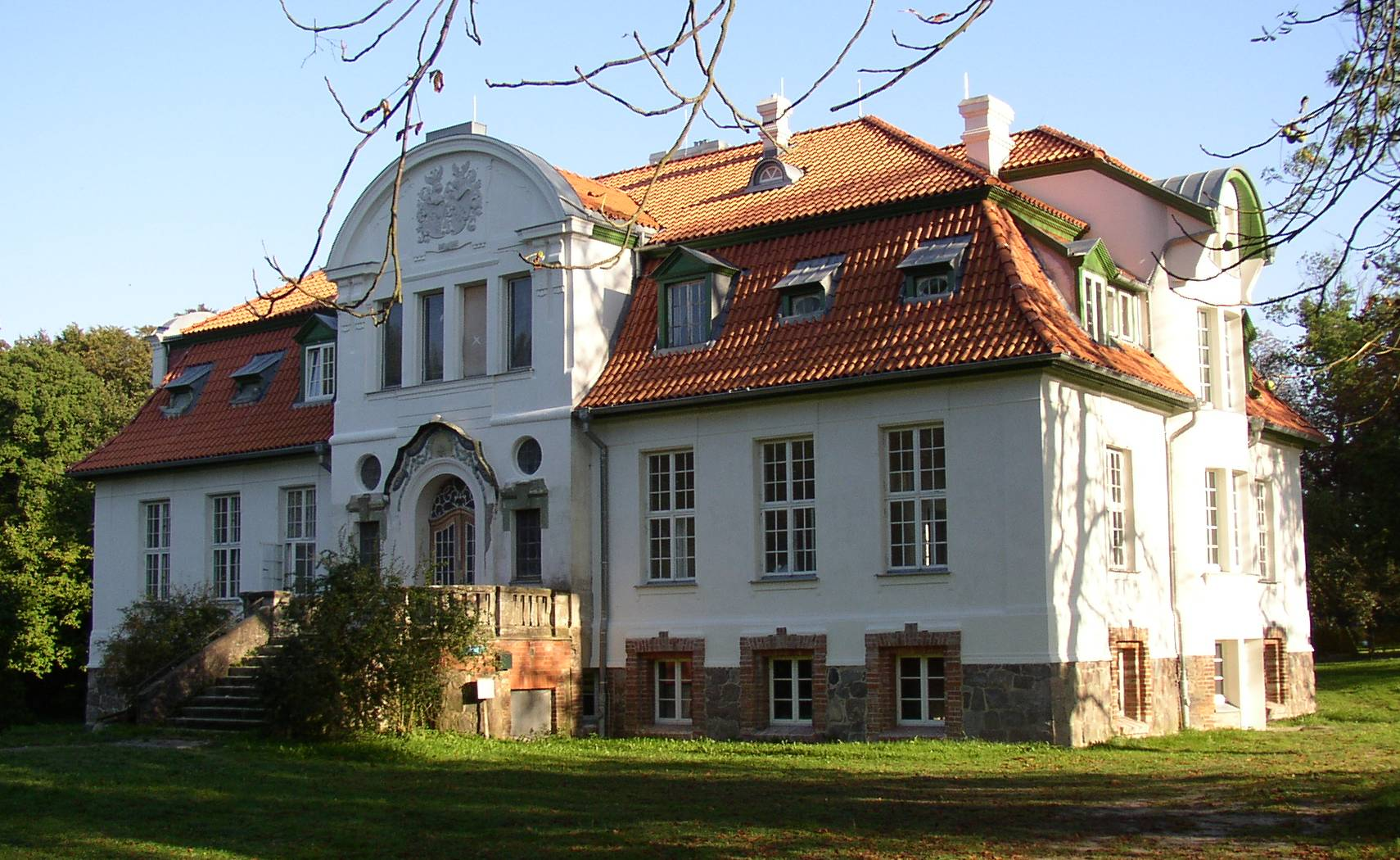 Stubbendorf manor in Mecklenburg-Western Pomerania, Germany